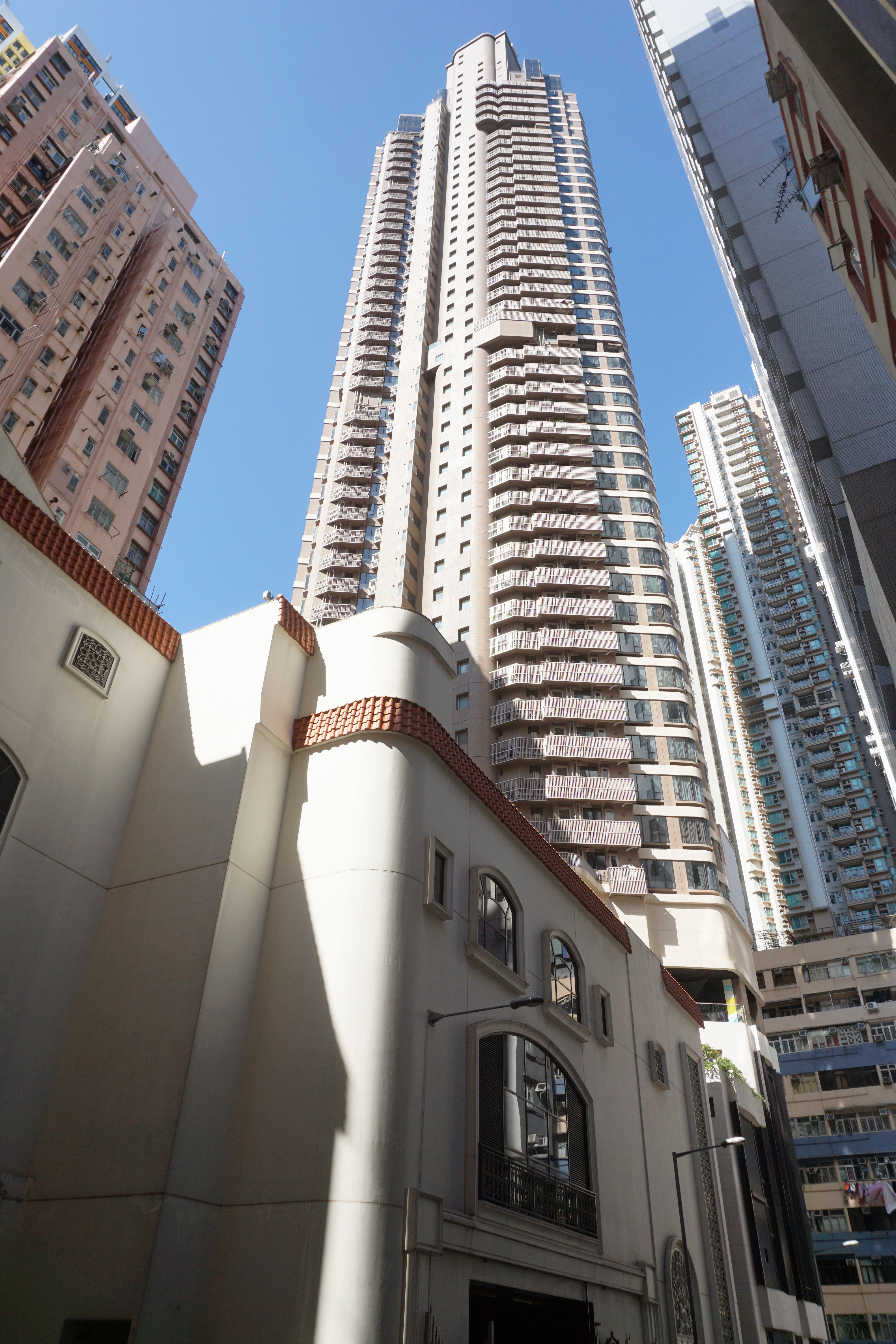 Cadogan in Kennedy Town, Hong Kong.